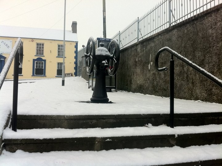 old pump